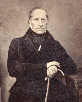 Picture of Norwegian botanist N. M. Blytt. He died in 1862, which means that any reasonable copyright is expired. Quote pghotographers Olsen & Thomsen and University of Oslo as sources.